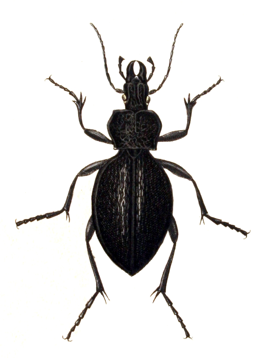 Carabus gigas (syn. Carabus (Procerus) gigas, Procerus gigas (BioLib)), from Calwer's Käferbuch, Table 1, Picture 13. Taxonomy was updated to 2008, using mostly the sites Fauna Europaea and BioLib. Please contact Sarefo if the determination is wrong!